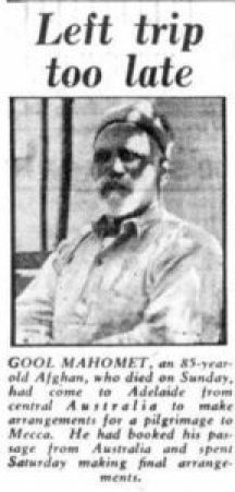 Capture of newspaper article